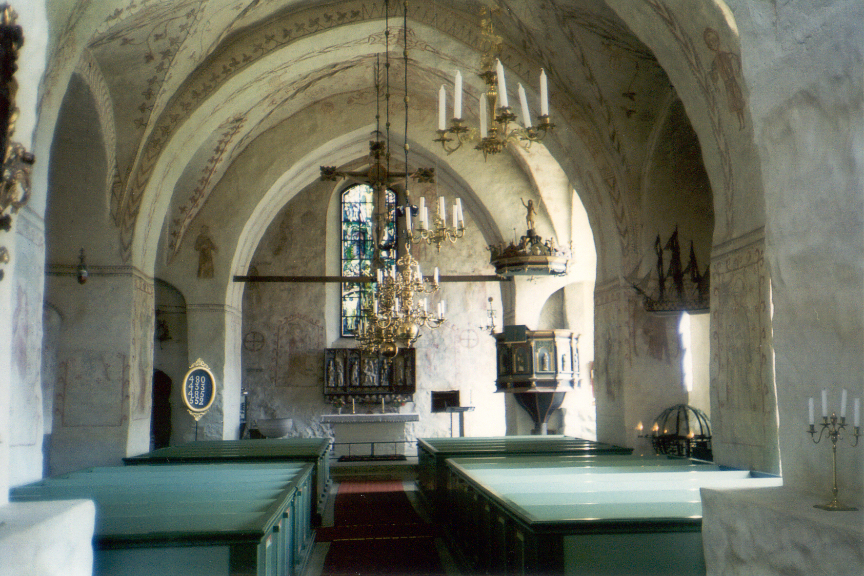 Interior of the Finström Church in Finström, Åland, Finland